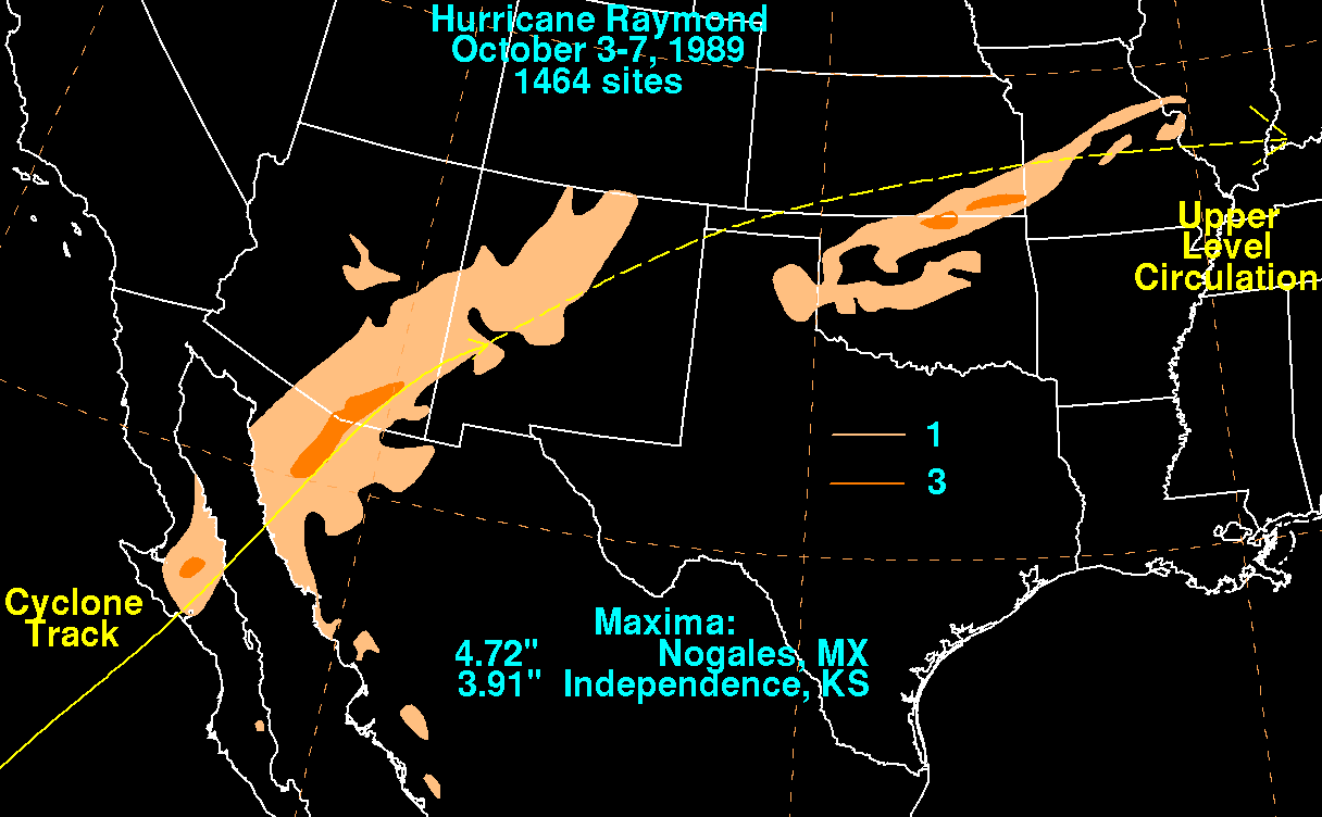 Storm total rainfall map of Hurricane Raymond during October 1989.